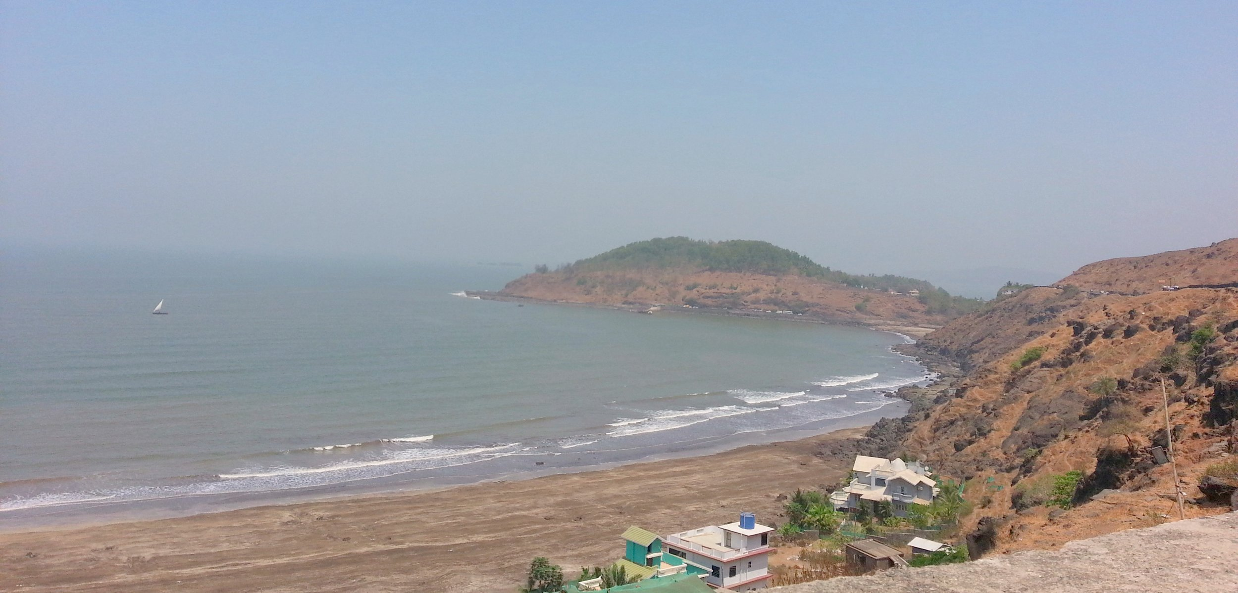 murud beach overlooking arabian sea